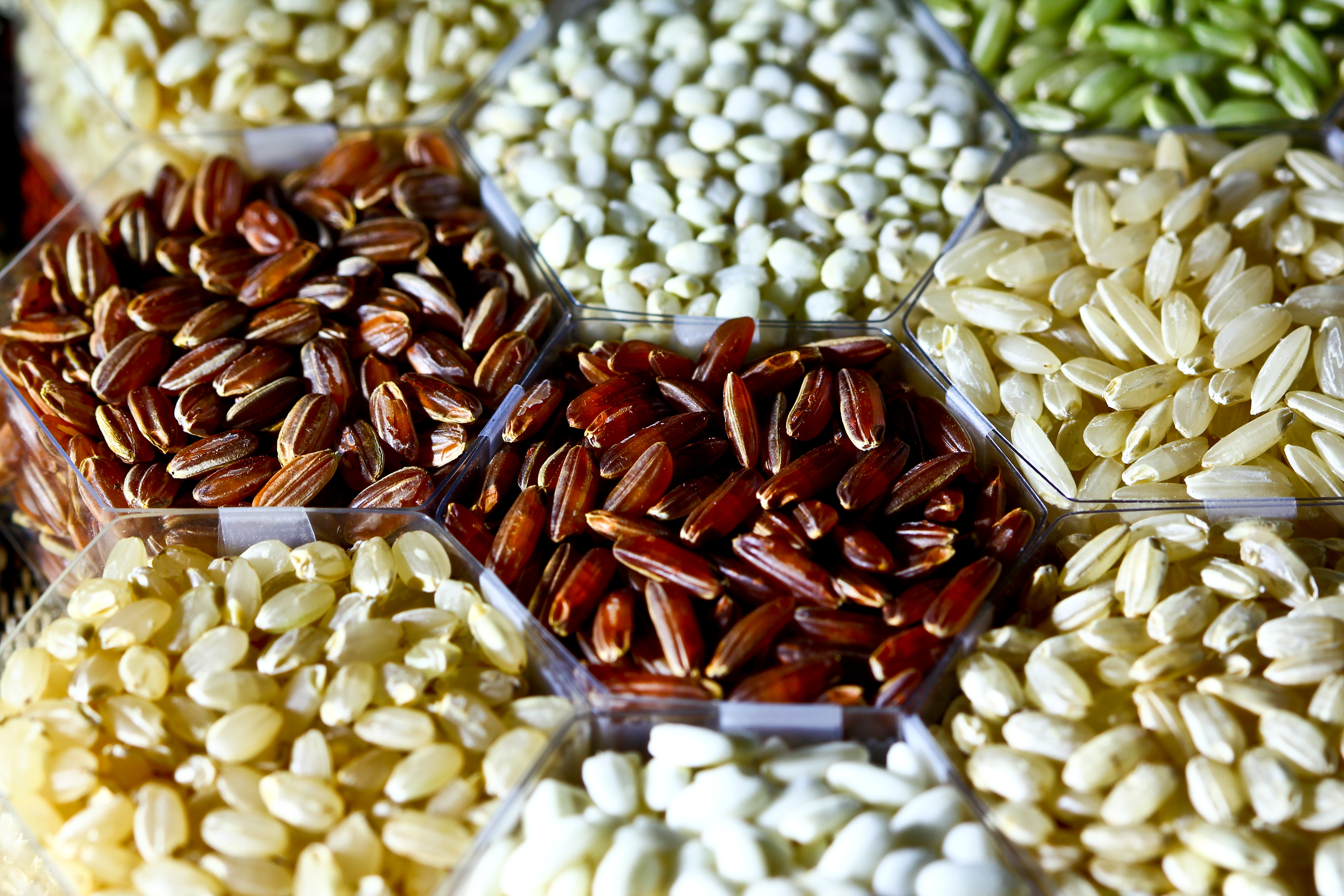 Rice Diversity. Part of the image collection of the International Rice Research Institute (IRRI) .